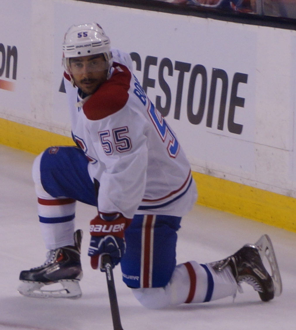 I took this picture of Bouillon taking a break during pre-game warm-ups prior to game 2 of the Eastern Conference Semi-Finals in Boston, MA.